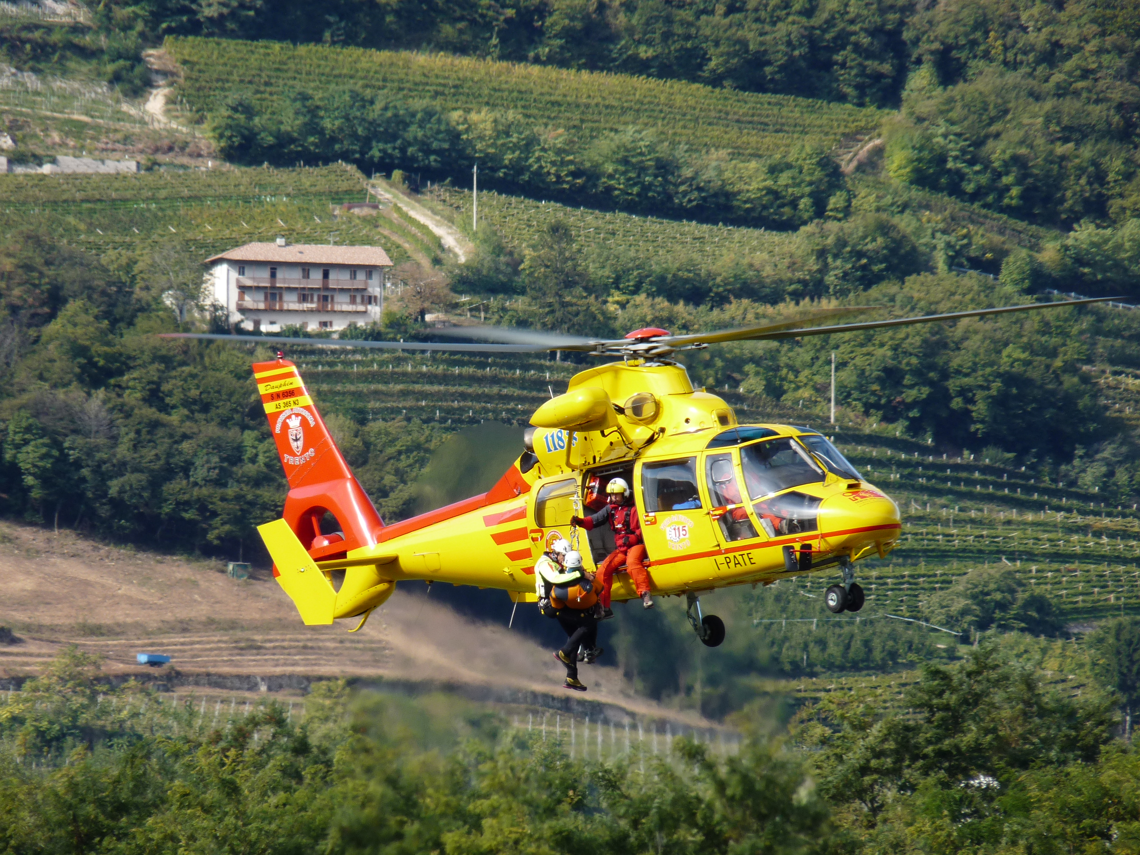 Trento (Italy): the I-PATE air ambulance in a simulated rescue mission during the celebration of the 50th anniversary of the Nucleo Elicotteri (helicopters team) of the fire department of the Province of Trento